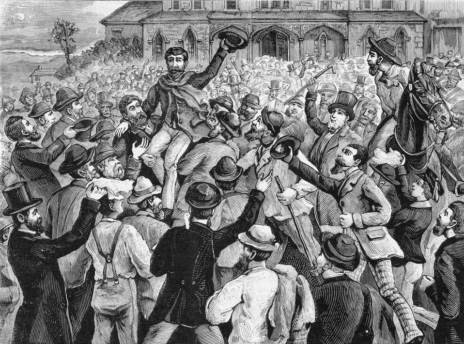 Wood engraving of public celebrations following the acquittal of the Eureka rebels